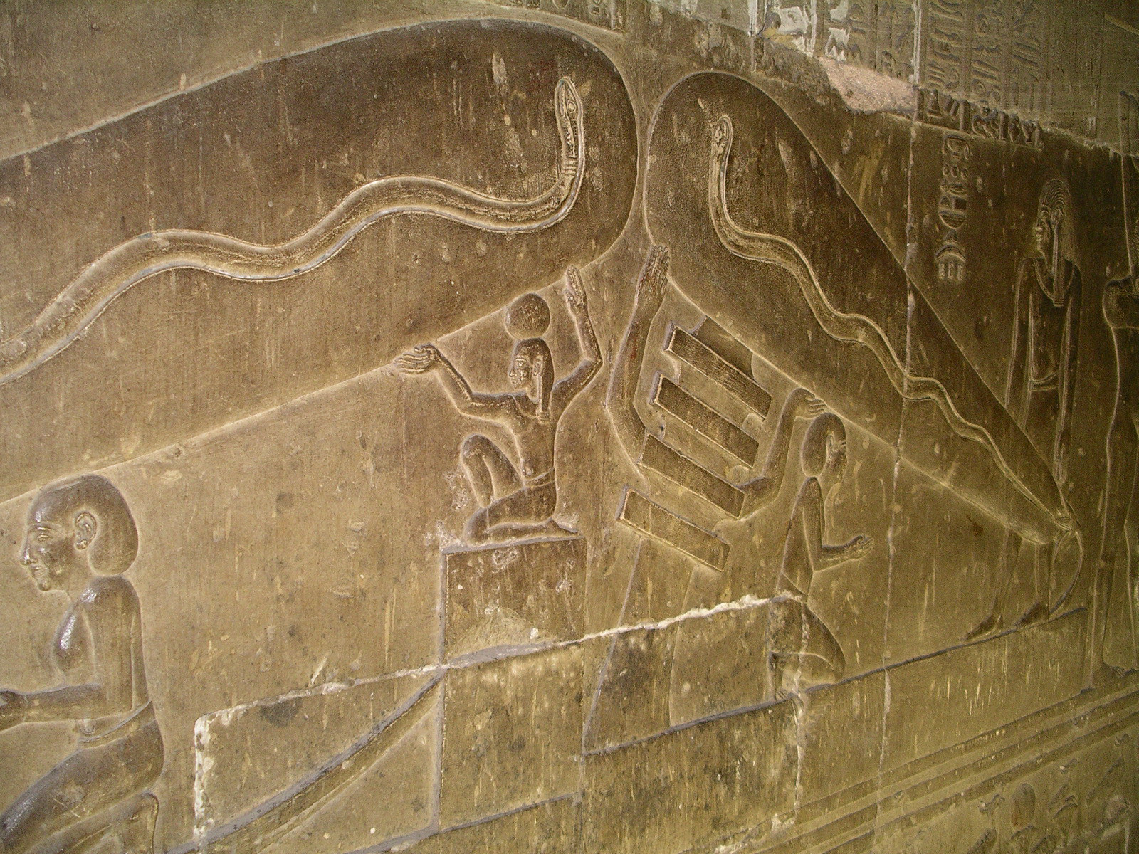 The so-called Dendera light in one of the crypts of Hathor temple at the Dendera Temple complex in Egypt, showing the double representation on the right wall of the right wing of the crypt. Photographed February 6, 2005, by Lasse Jensen